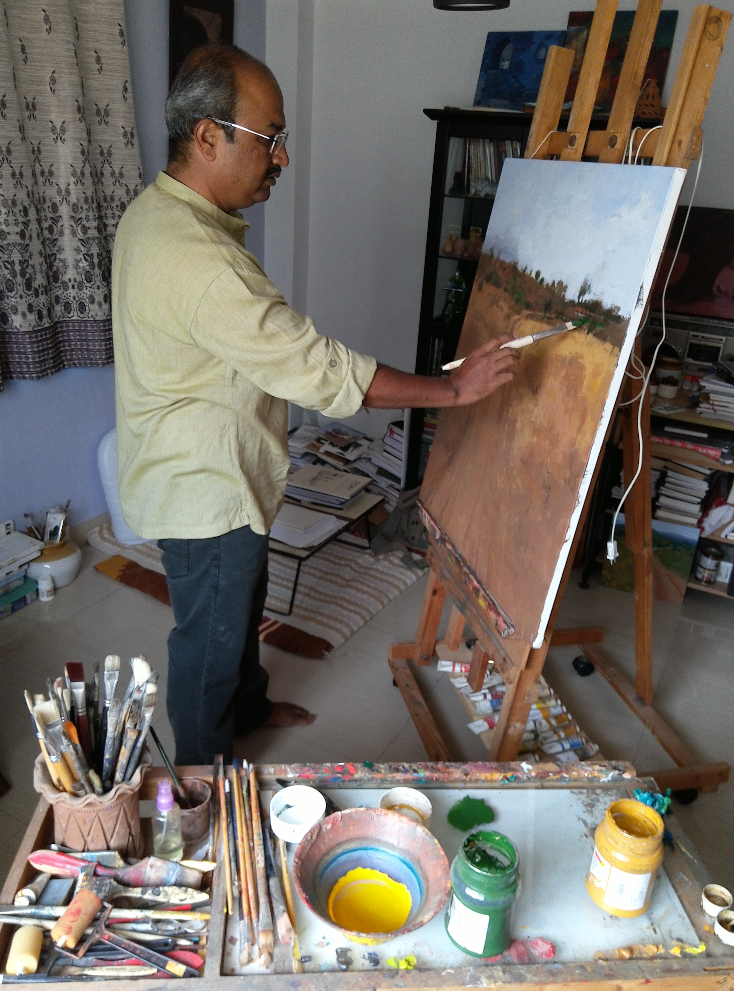 Artist Anwar husain at work